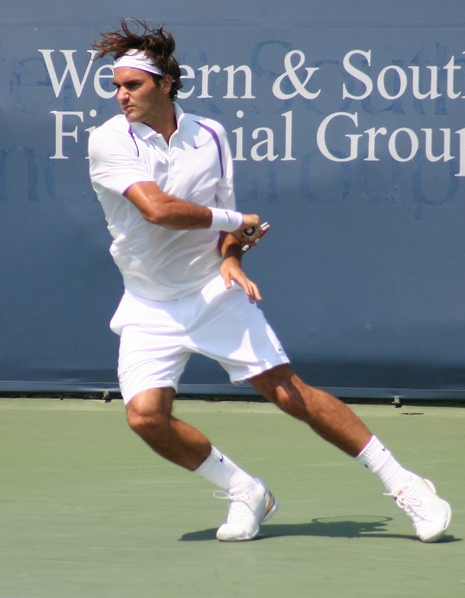 Roger Federer playing in Cincinnati